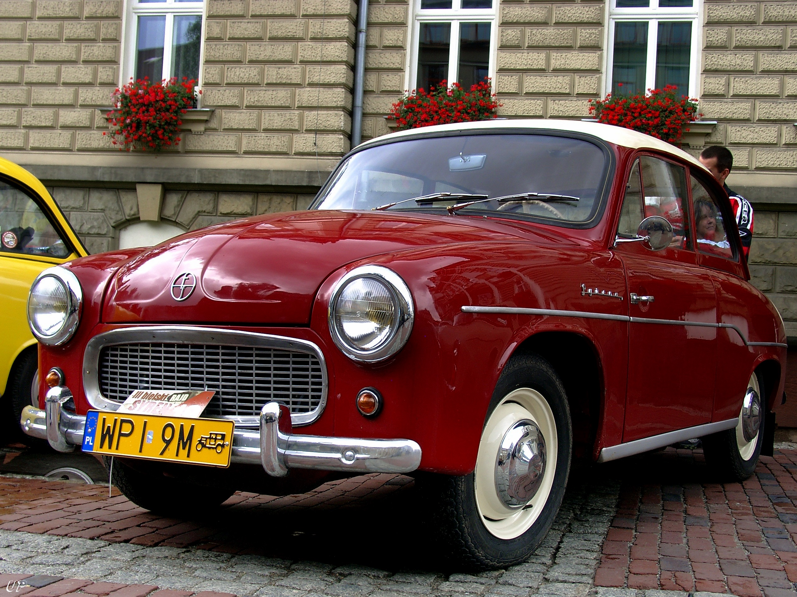 FSO Syrena 103 car in Poland.